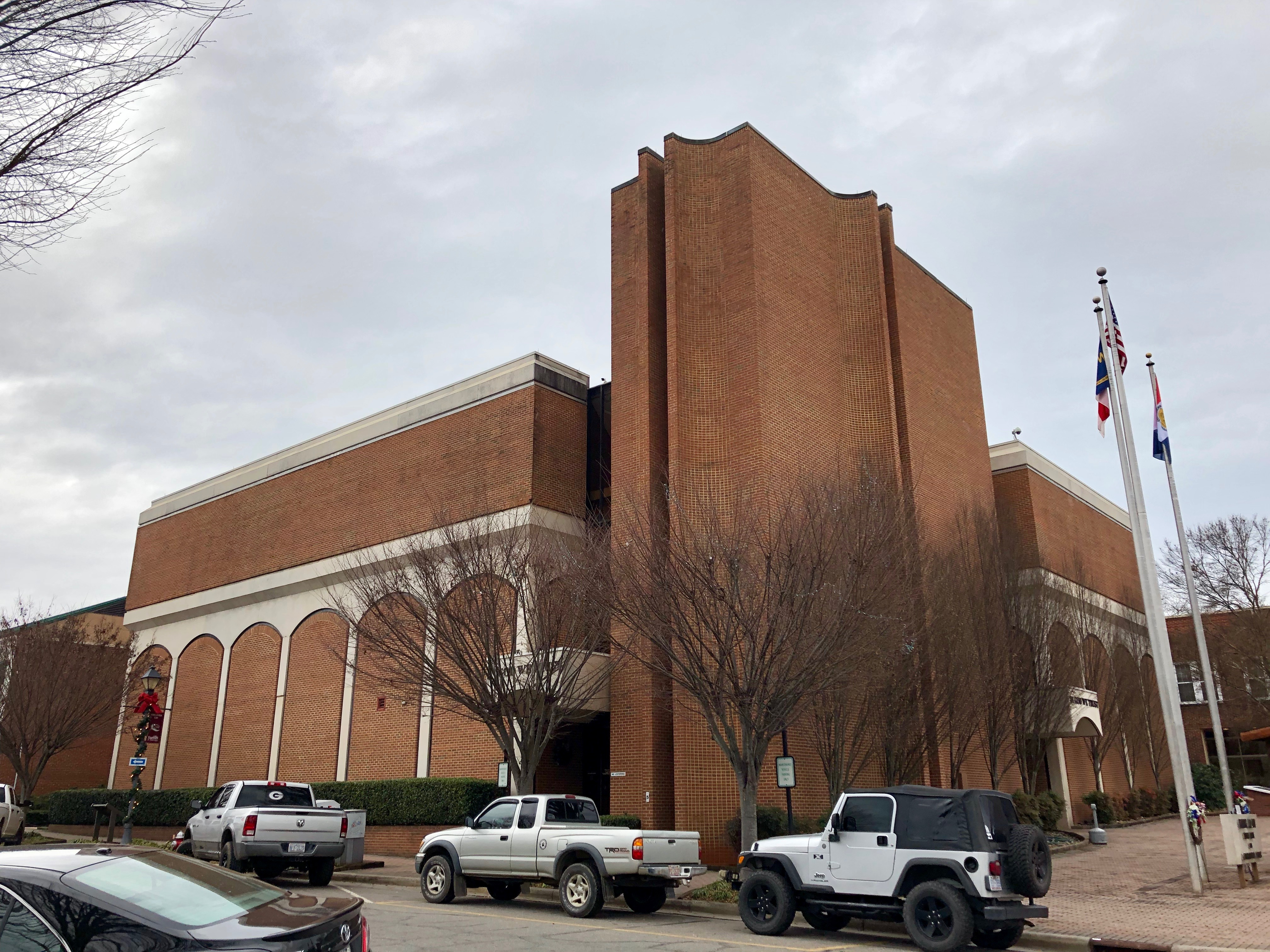 This ugly structure replaced the old Italianate-style courthouse (built 1881) in 1972. The old building was subsequently demolished.